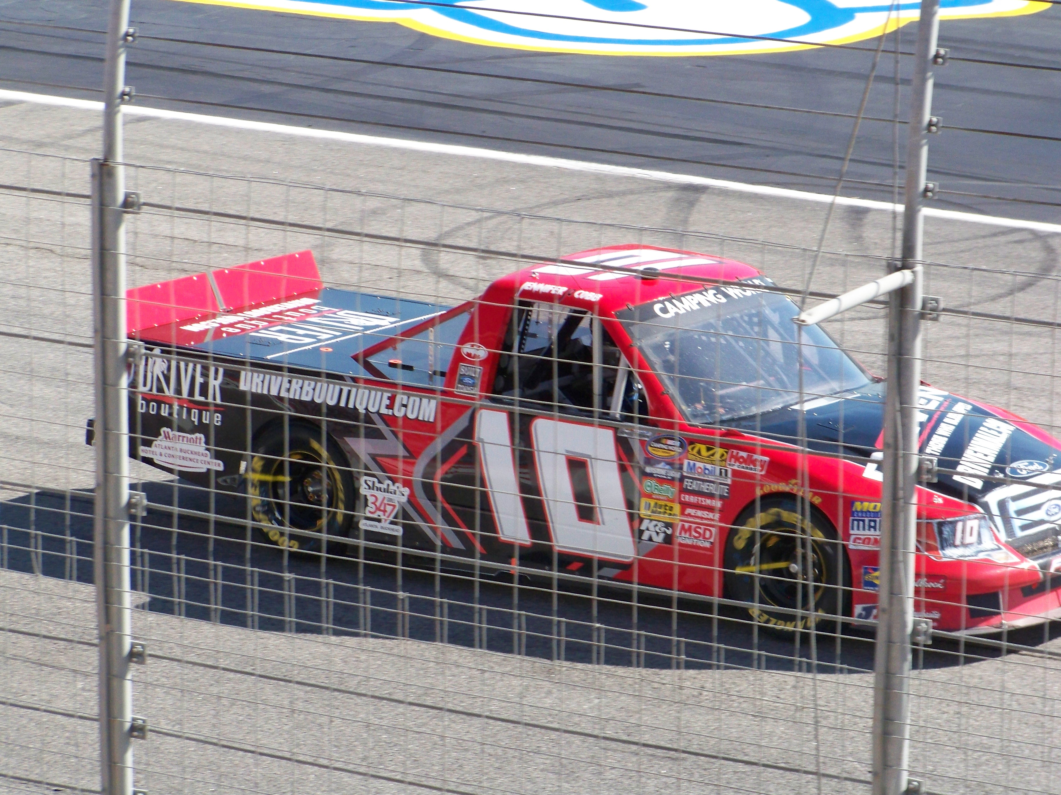 Jennifer Jo Cobb at Atlanta in 2010. At Atlanta Motor Speedway